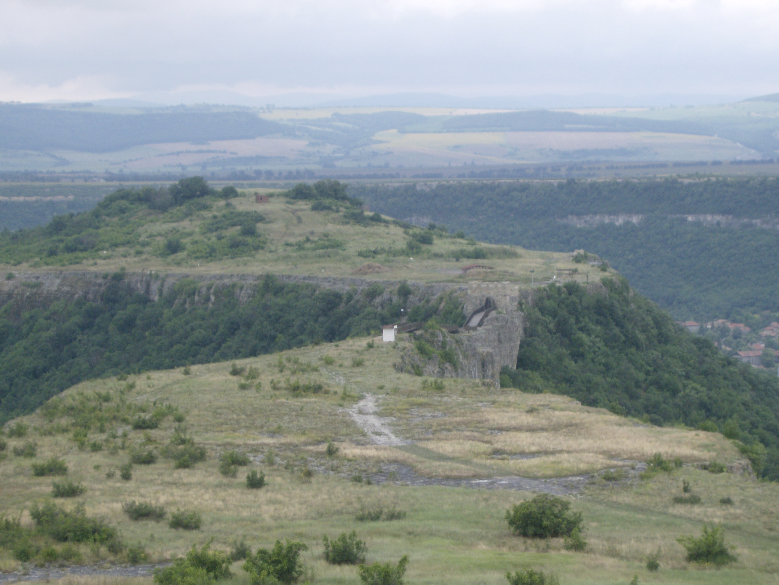 Ovech Fortress